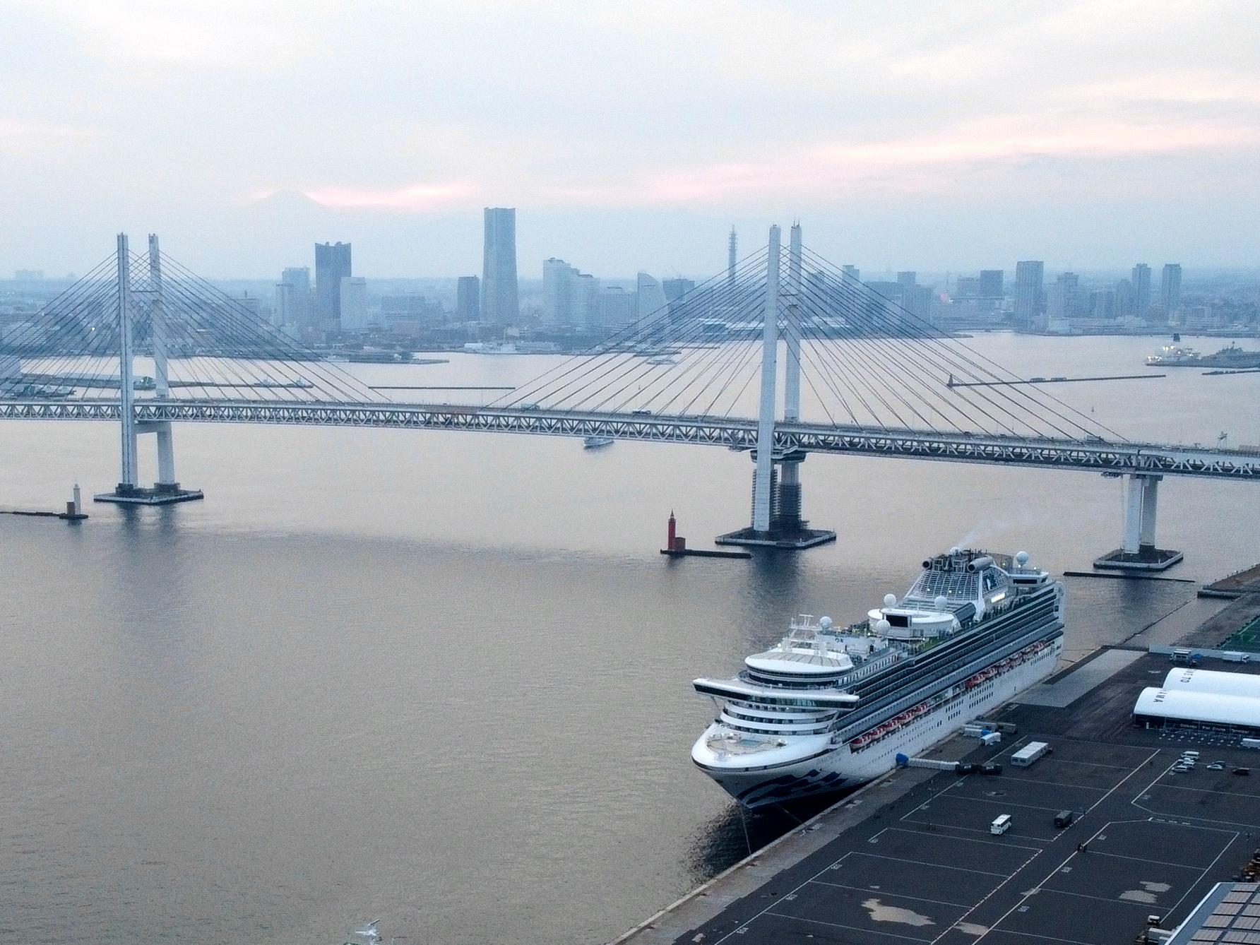 Aerial view of Diamond Princess with Yokohama City shot on Mavic Mini